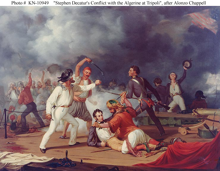 Painting of Decatur boarding Tripolian gunboat, 1804; Oil on canvas